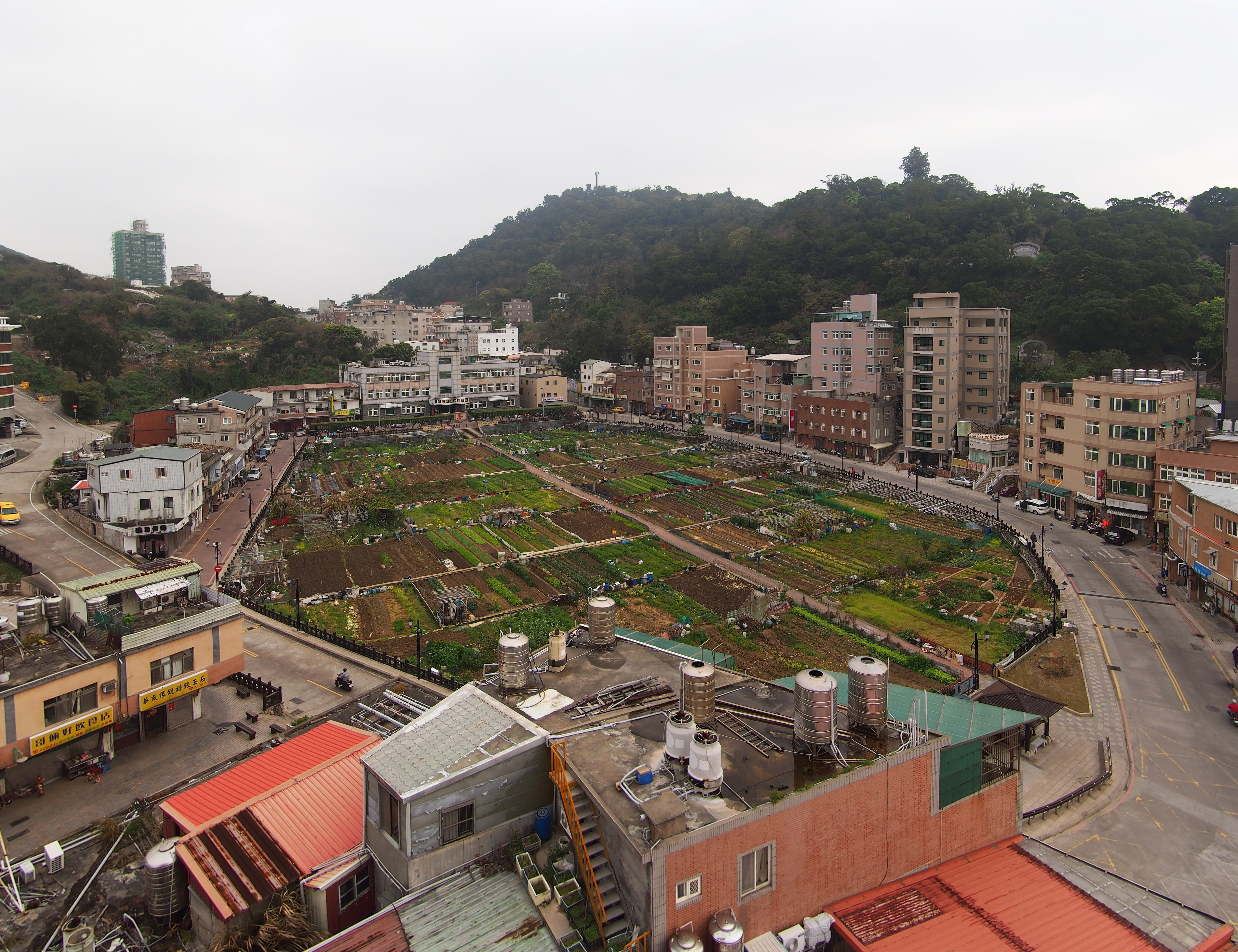 Full View of Shanlong (Jieshou) Village - 2016.04